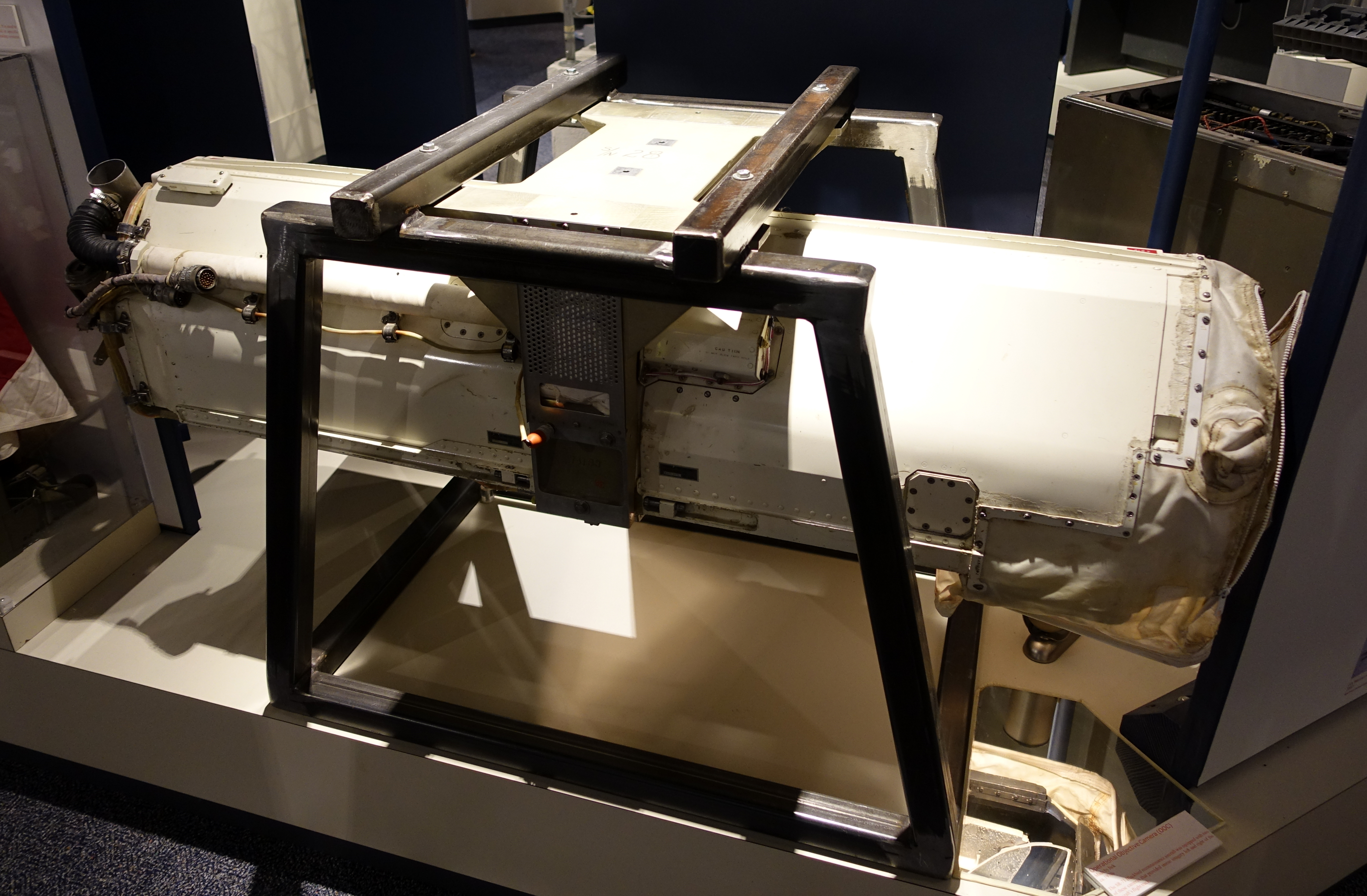 Exhibit in the National Electronics Museum, 1745 West Nursery Road, Linthicum, Maryland, USA. All items in this museum are unclassified. The museum permitted photography without restriction.